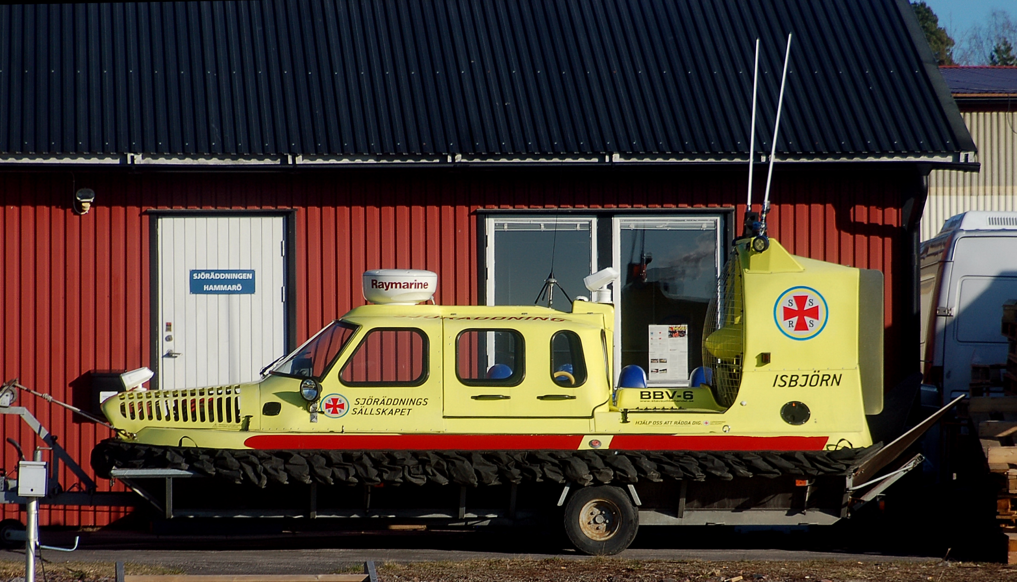 Hovercraft of the Swedish Sea Rescue Society. The hovercraft is used wintertime for rescuing long distance skaters and anglers on the frozen big lakes of Mid-Sweden and of the archipelagos in the Baltic, primarally around Stocholm. This vessel is delivery to the rescue station at Hammarö (Skoghall) at Lake Värnen, the biggest lake in Sweden